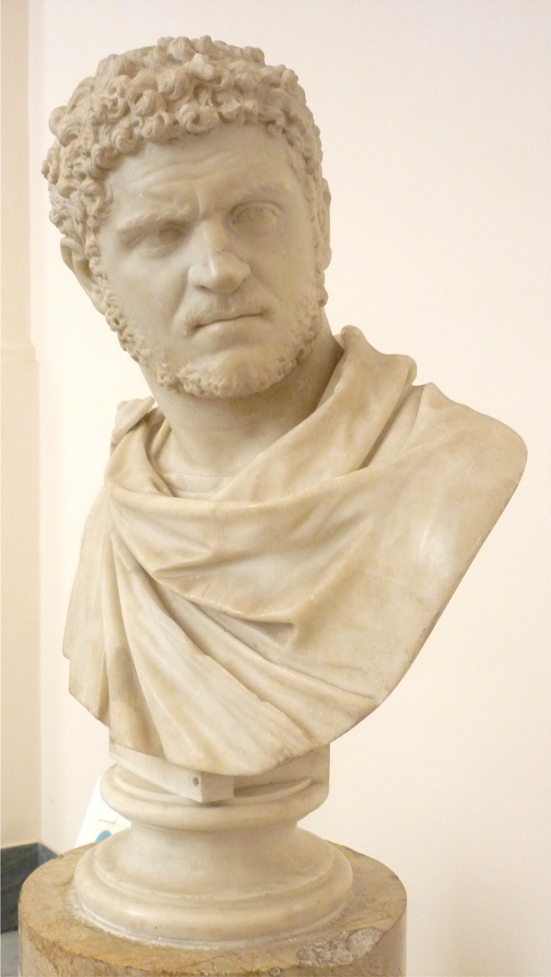 Portrait of the emperor Caracalla from a statue reworked as a bust.